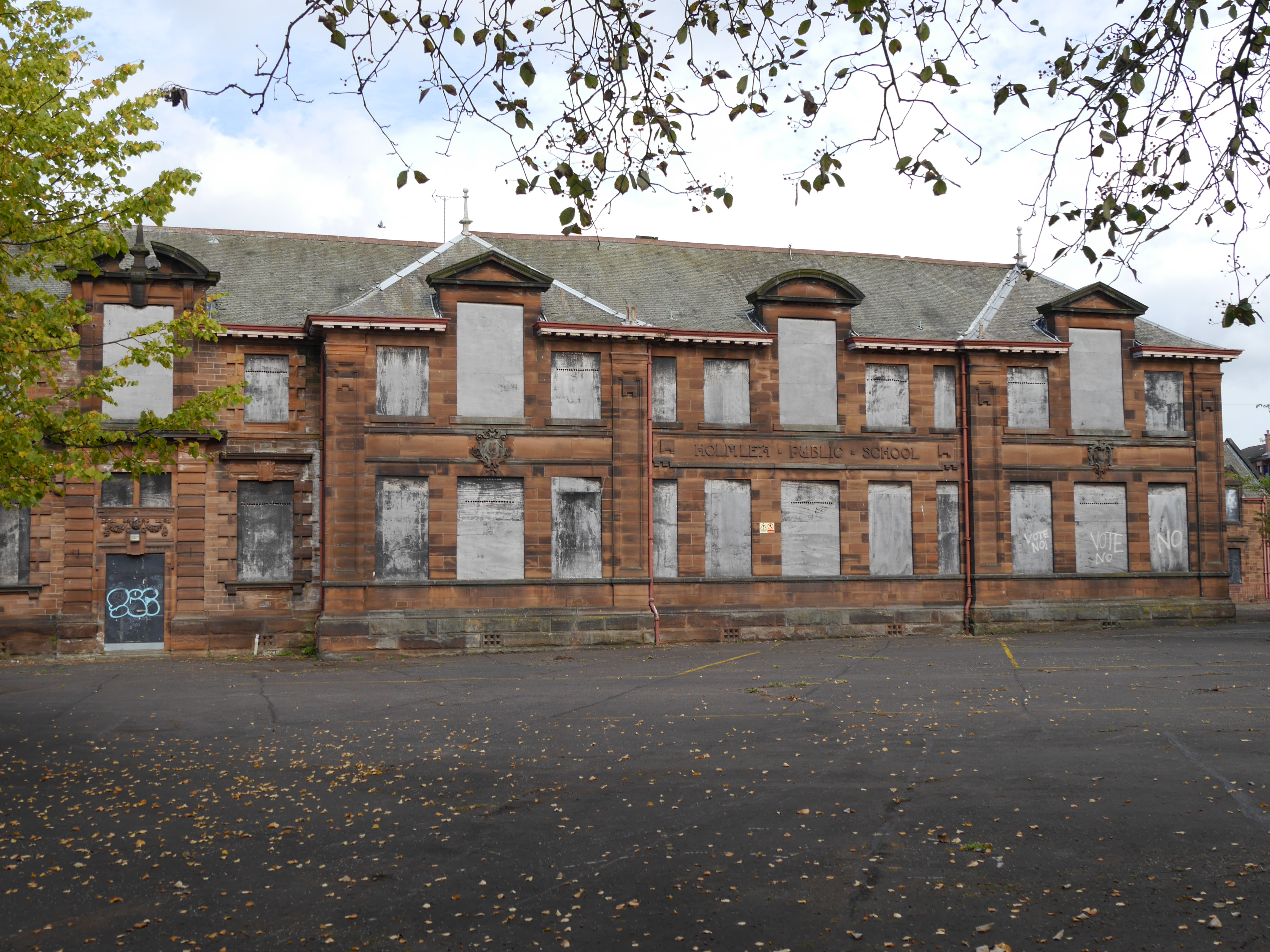 Holmlea Primary School, 352-362 HOLMLEA ROAD, Glasgow Wikidata has entry Q17813746 with data related to this building.